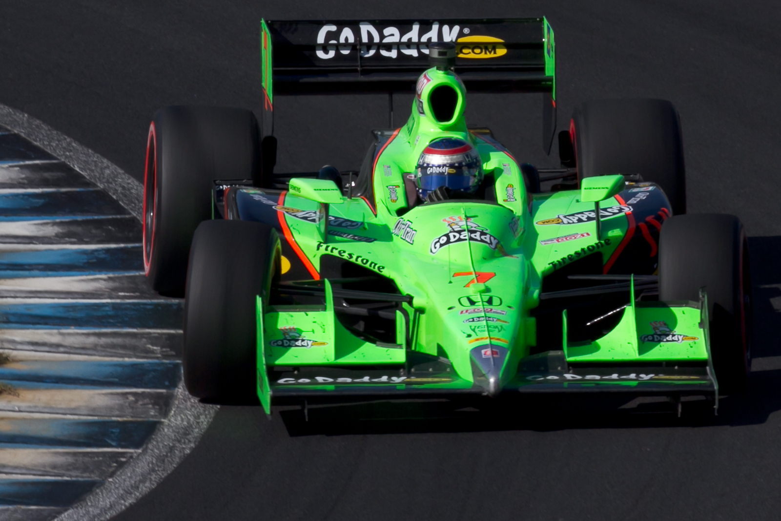 IndyCar Series 2011 Rd.15 Indy Japan 300: Danica Patrick (Andretti Autosport)